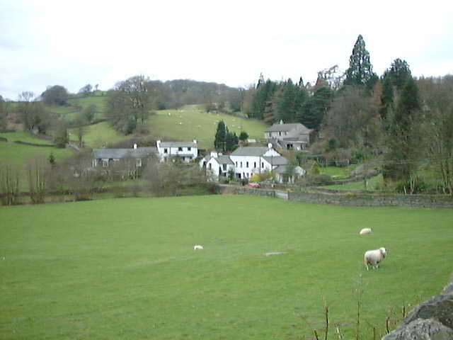 Crook. Low Fell country between Kendal and Windermere